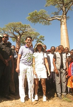 Andry and Mialy Rajoelina at the National Reforestation Day 2012 of Madagascar.